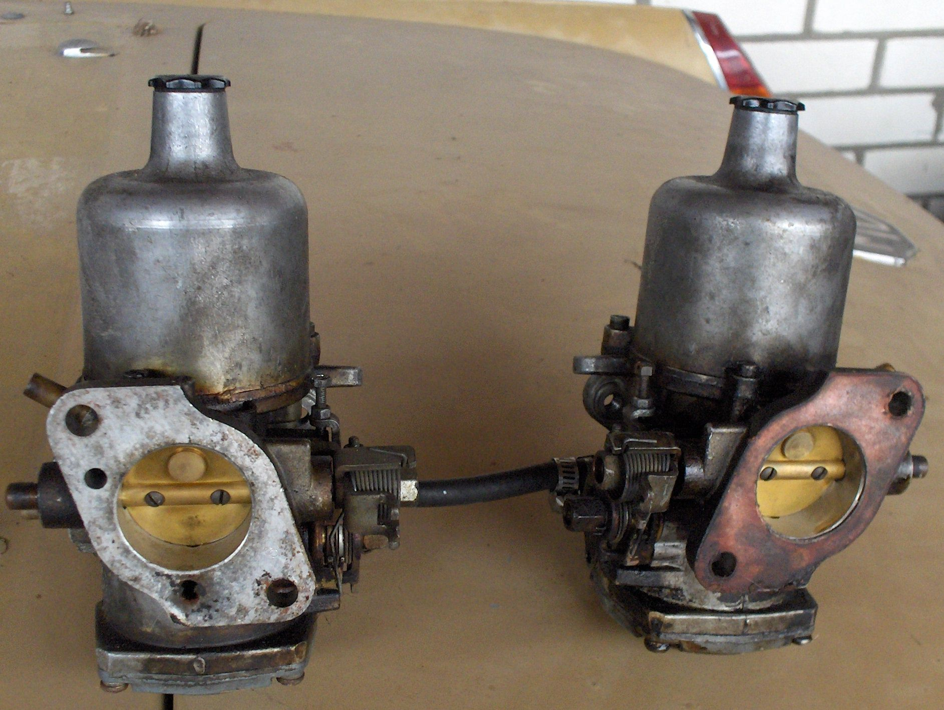 A pair of SU carburettors as used on MG cars.